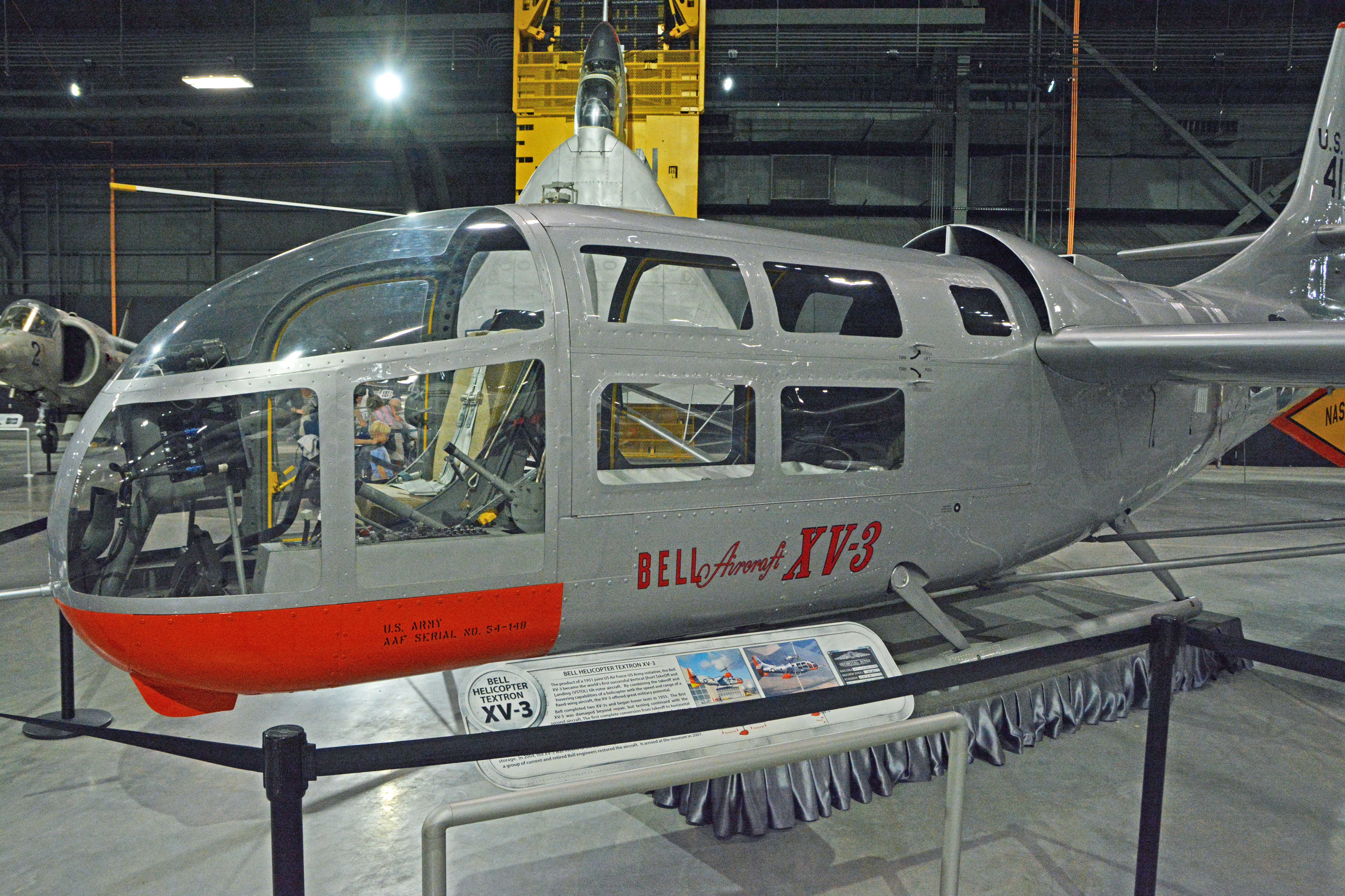 Bell XV-3 54‐148 at the National Museum of the United States Air Force